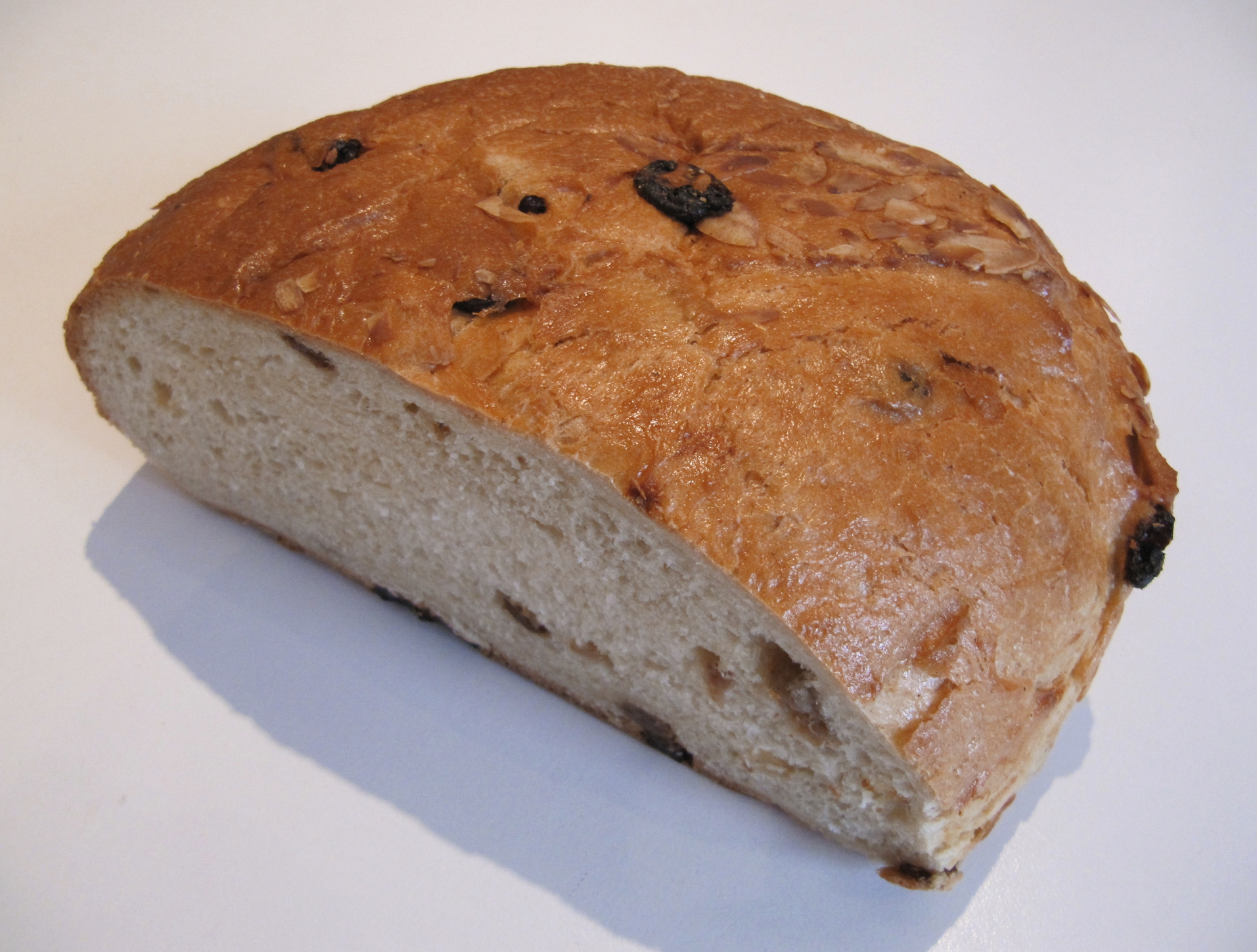 German yeast-based Easterbread with raisins and almonds (available in March and April)